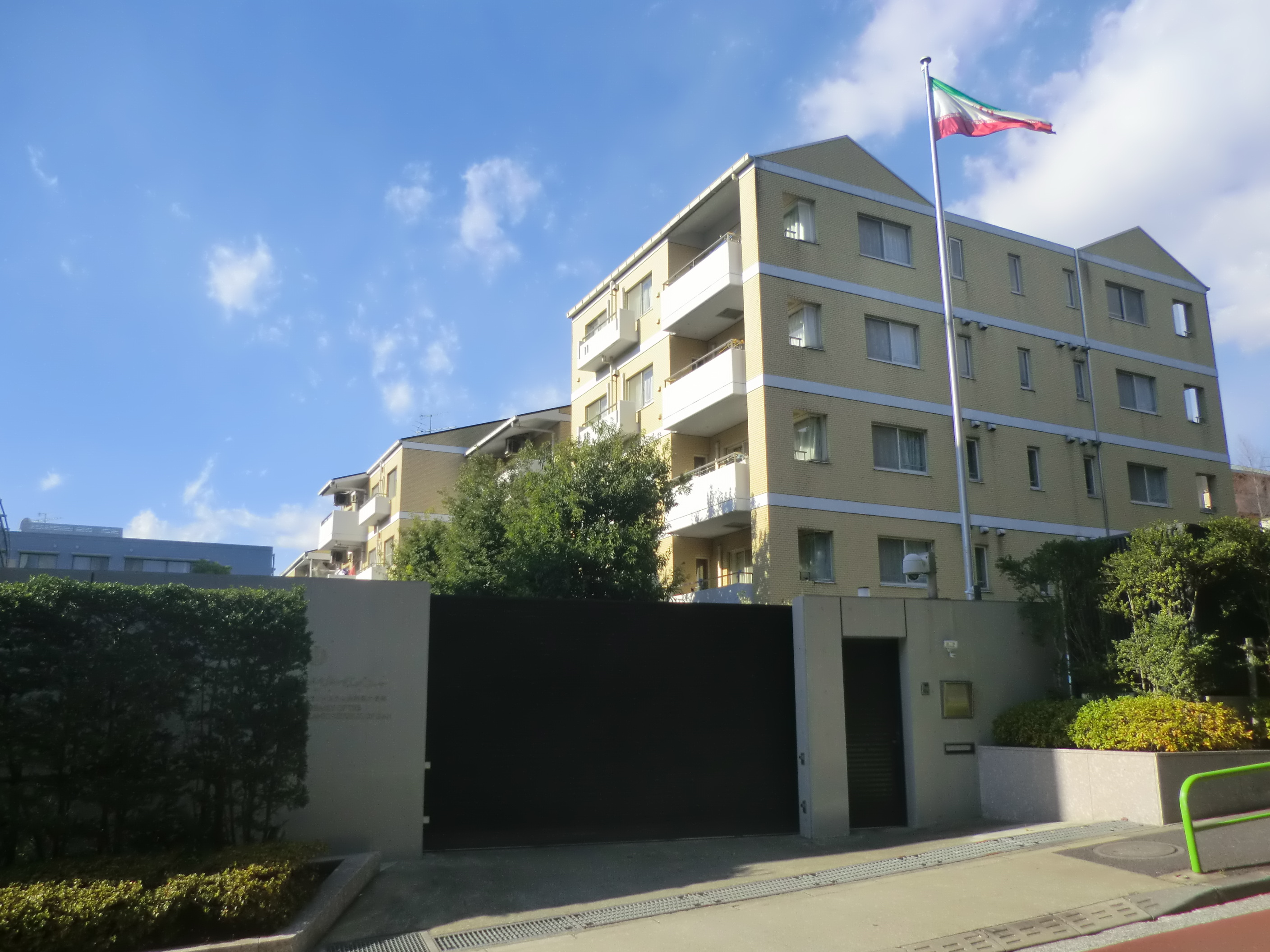 Embassy of Islamic Republic of Iran in Japan located in Minami-Azabu,Minato ward,Tokyo.